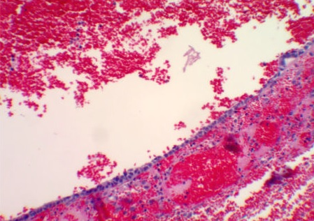 Histopathology of a hemorrhagic corpus luteum cyst.